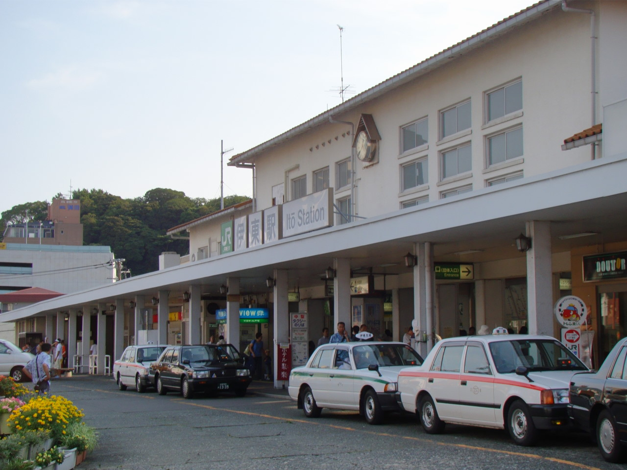 Ito station(Ito line - East japan railway company)